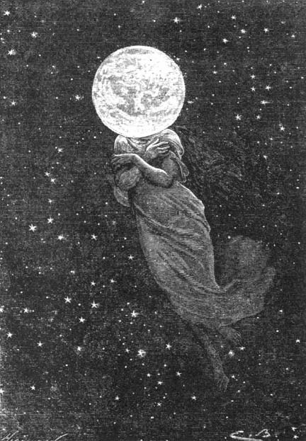 An illustration captioned "So this is how", from Jules Verne's novel Around the Moon drawn by Émile-Antoine Bayard and Alphonse de Neuville. This incipit refers to the English nickname "green cheese" for the moon: "So this is how 19th-century English speakers treat the beauteous Diana, fair Phoebe, lovely Isis, charming Astarte, the queen of the nights, the daughter of Leto and Jupiter, the younger sister of the radiant Apollo!" [This passage is missing in some older translations.]